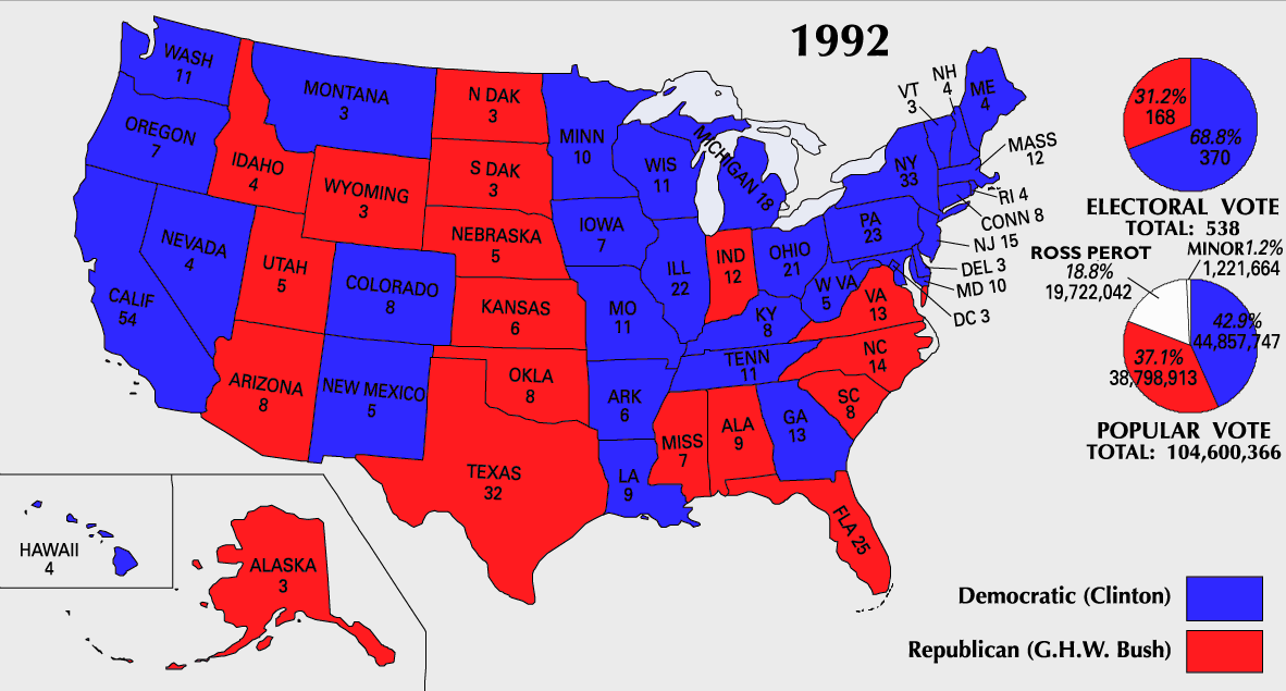 1992 Electoral College Map